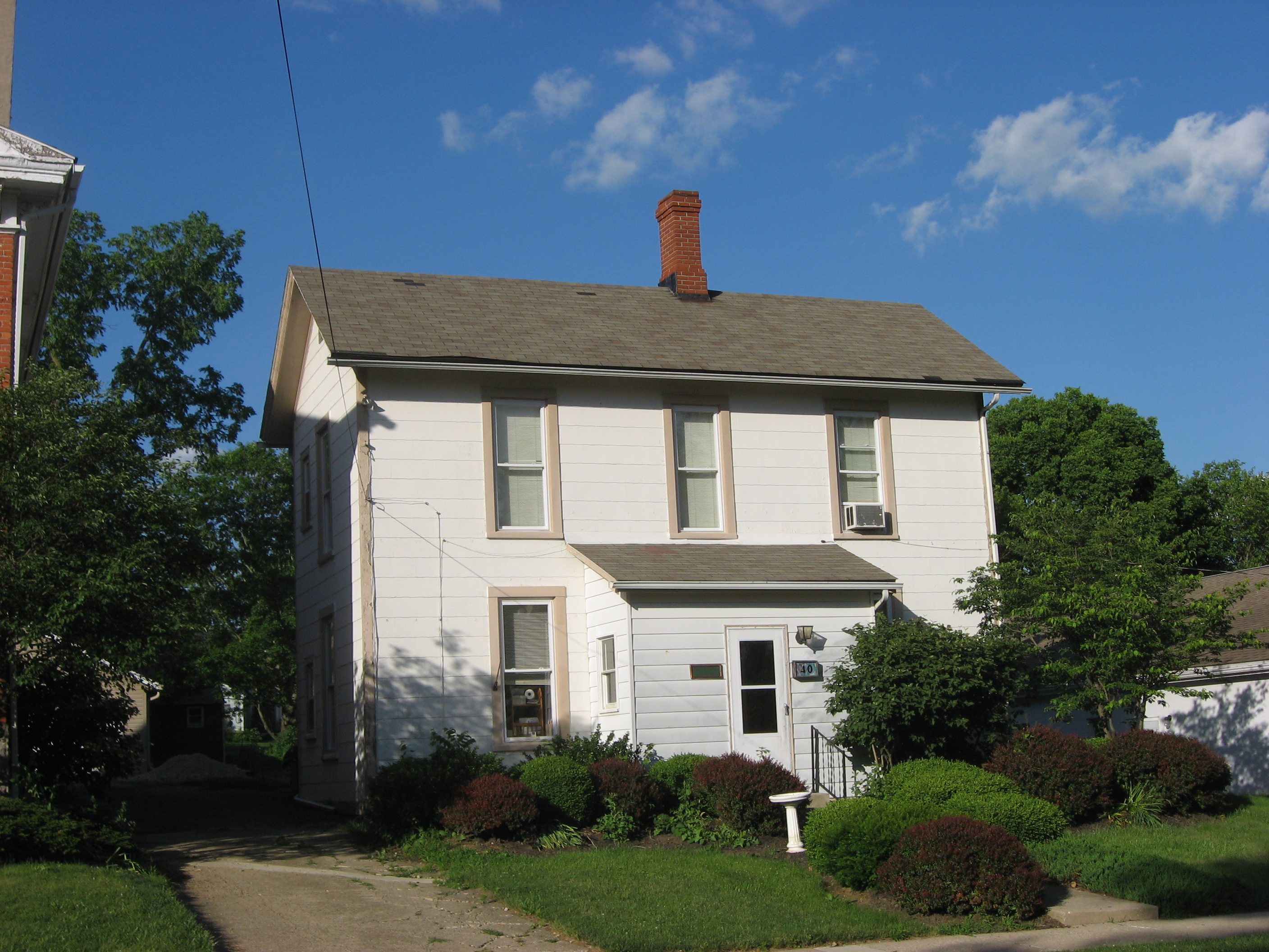 Front of St. Michael's Rectory, located adjacent to St. Michael's Catholic Church at 40 Walnut Street in Mechanicsburg, Ohio, United States.